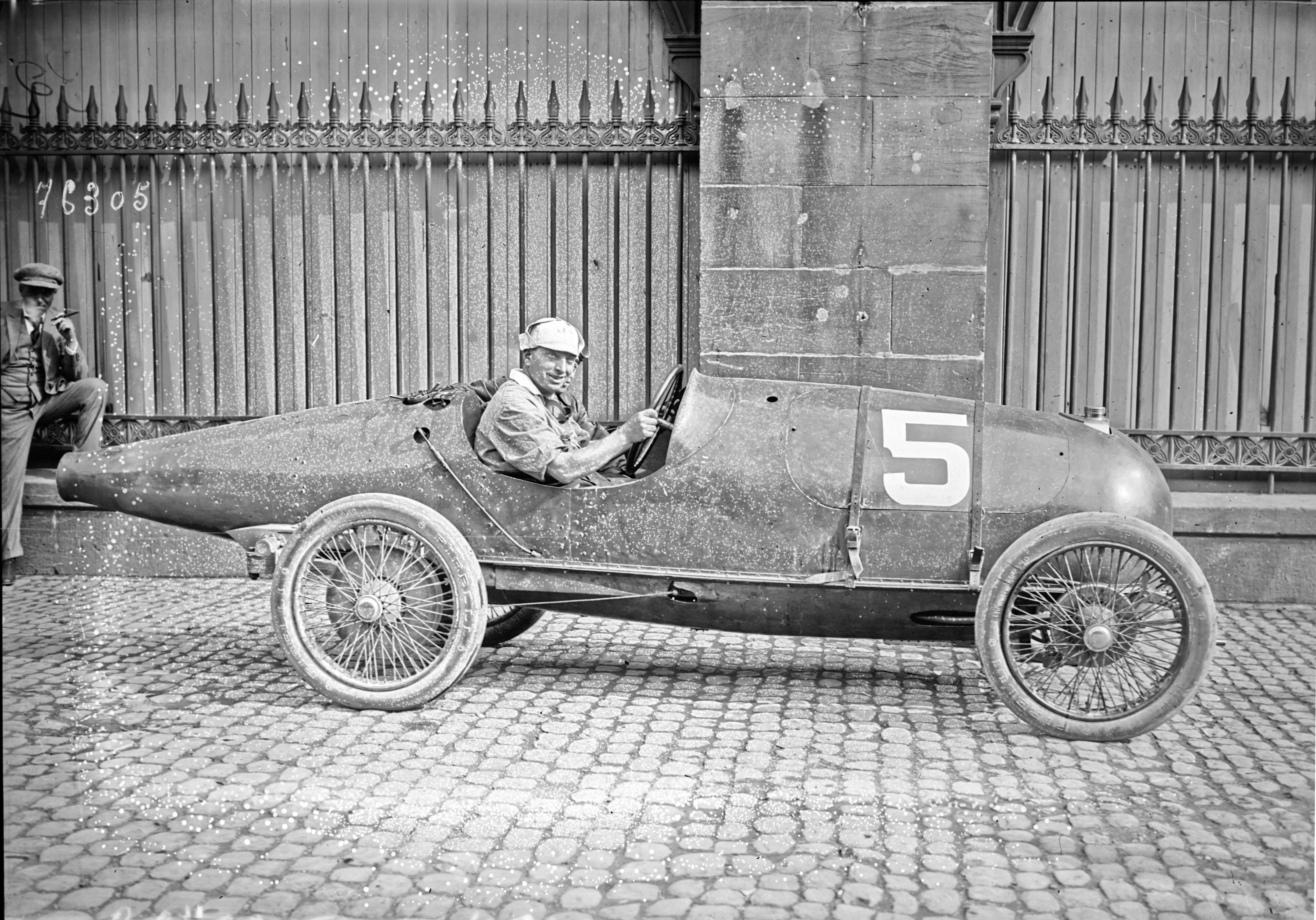 Ernest Friderich at the 1922 French Grand Prix